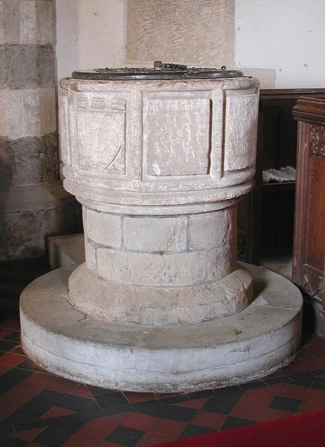 Church of England parish church of St Mary, North Aston, Oxfordshire: baptismal font